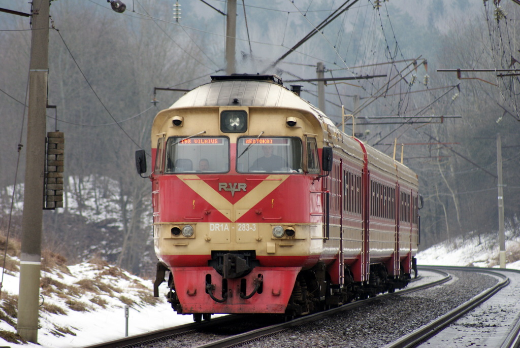 LG DR1A-283M in Paneriai, in transit from Vilnius to Šestokai.